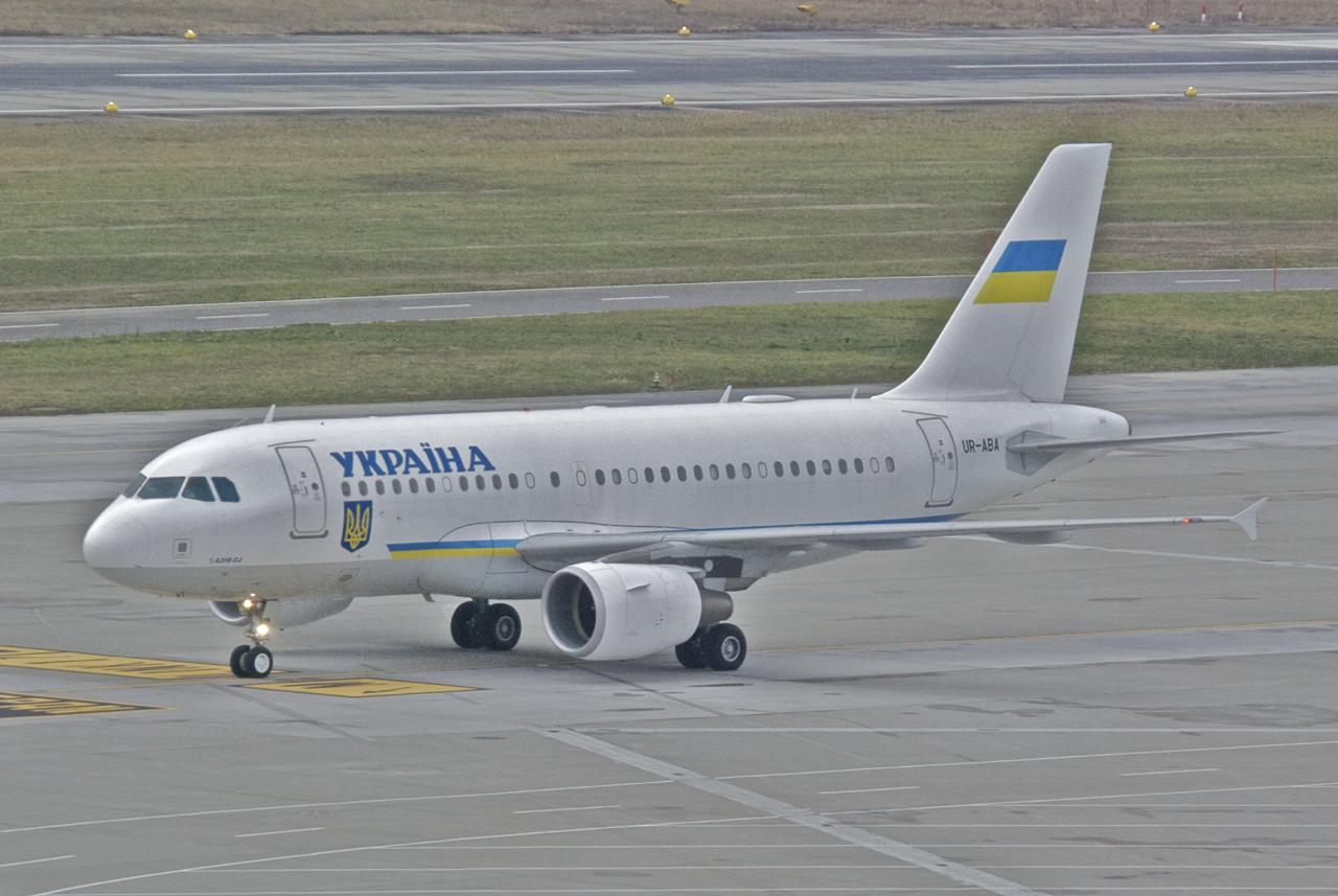 Ukraine Government Airbus A319-115X (CJ); UR-ABA@ZRH;25.01.2012/637bu